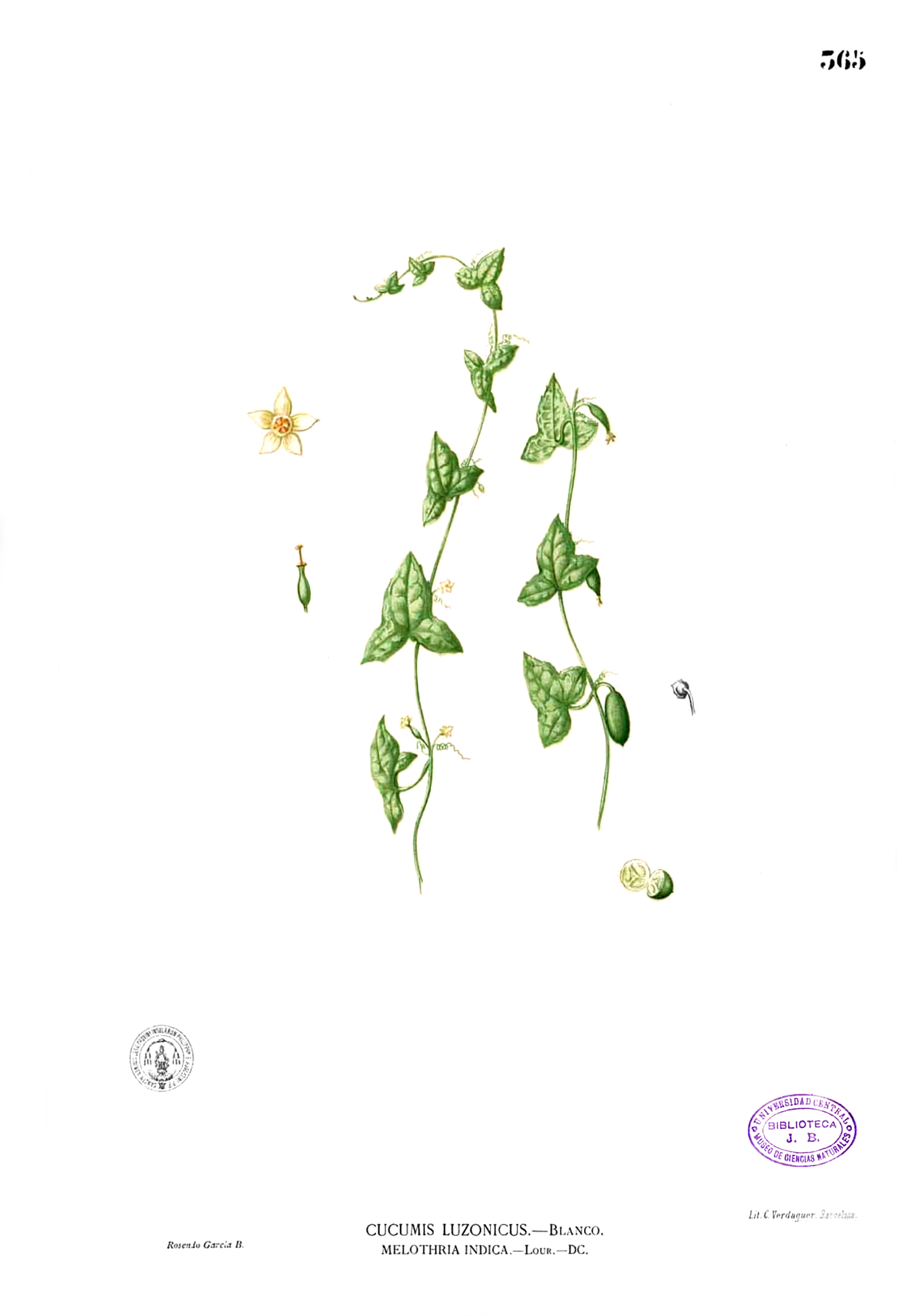 Plate from book